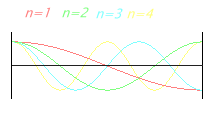 Free-free resonance